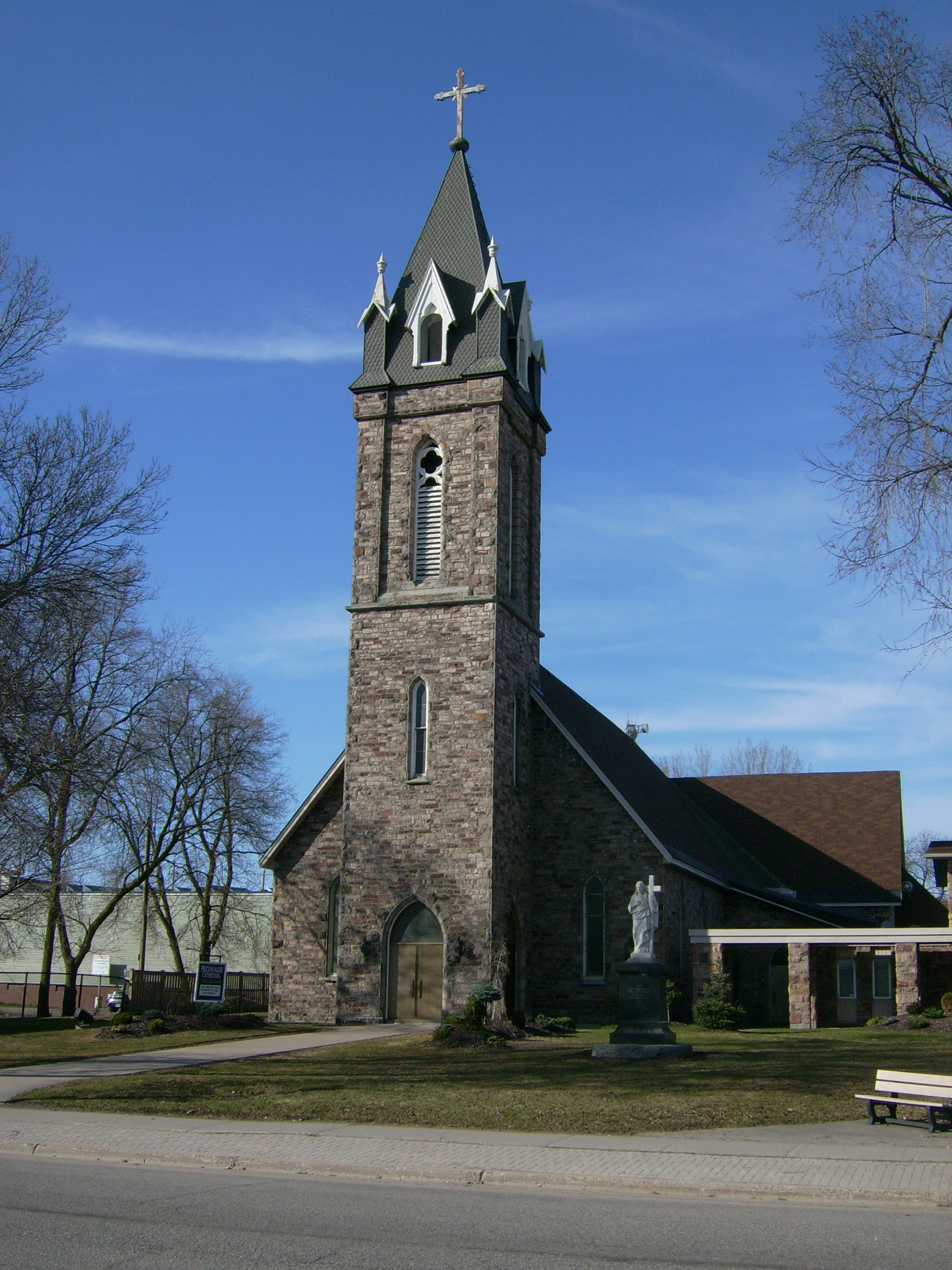 Precious Blood Cathedral, Sault Ste. Marie, Ontario.